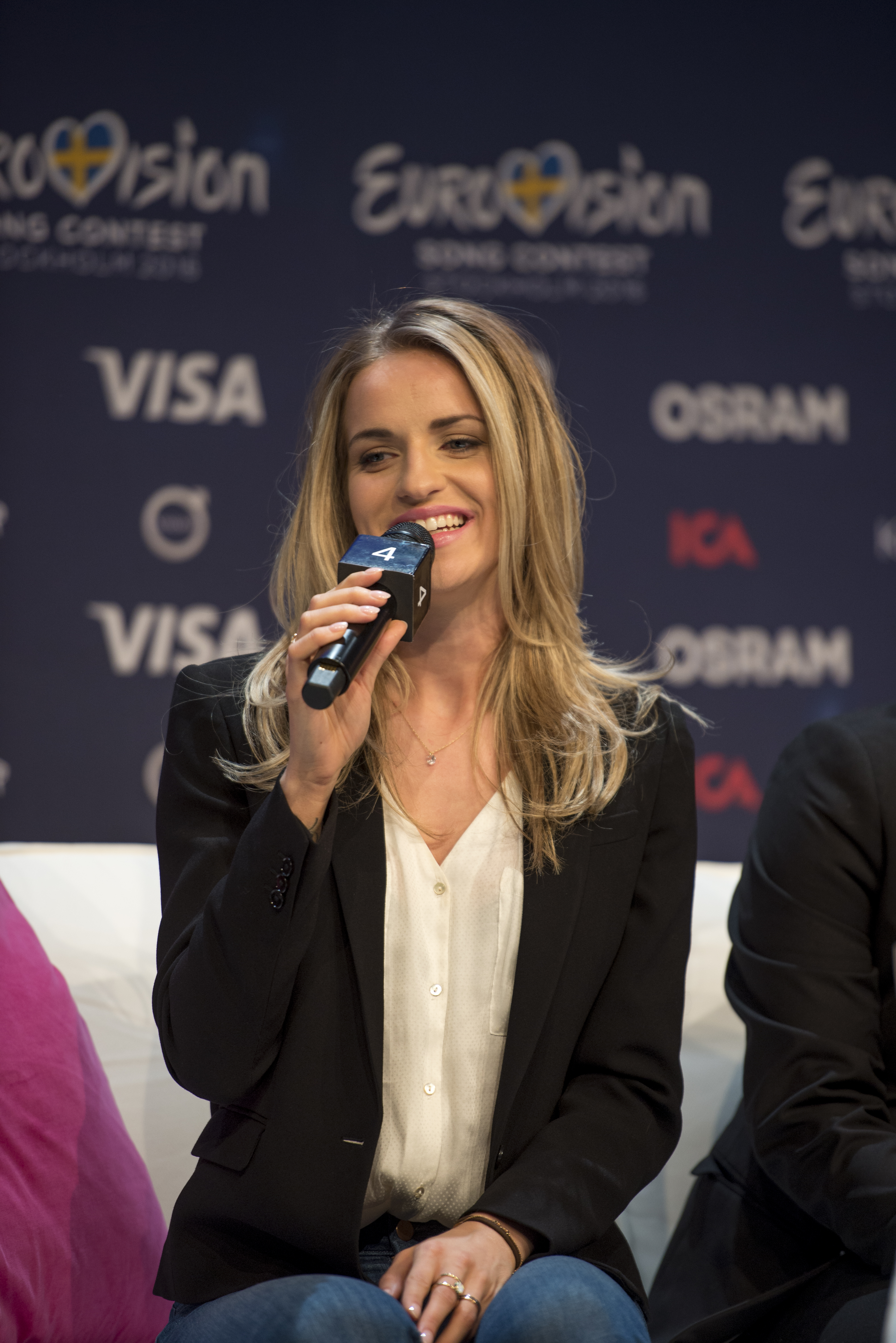 Gabriela Gunčíková at a Meet & Greet during the Eurovision Song Contest 2016 in Stockholm. (Help translate this text)